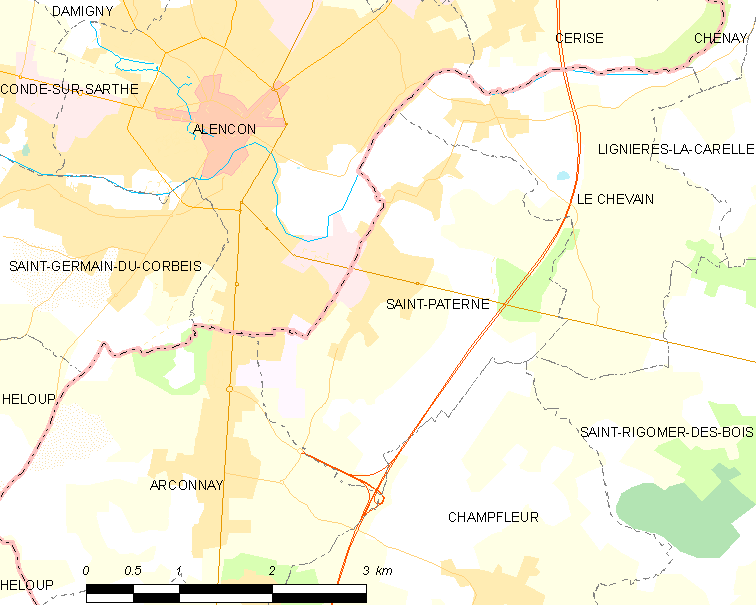 Map of French municipality